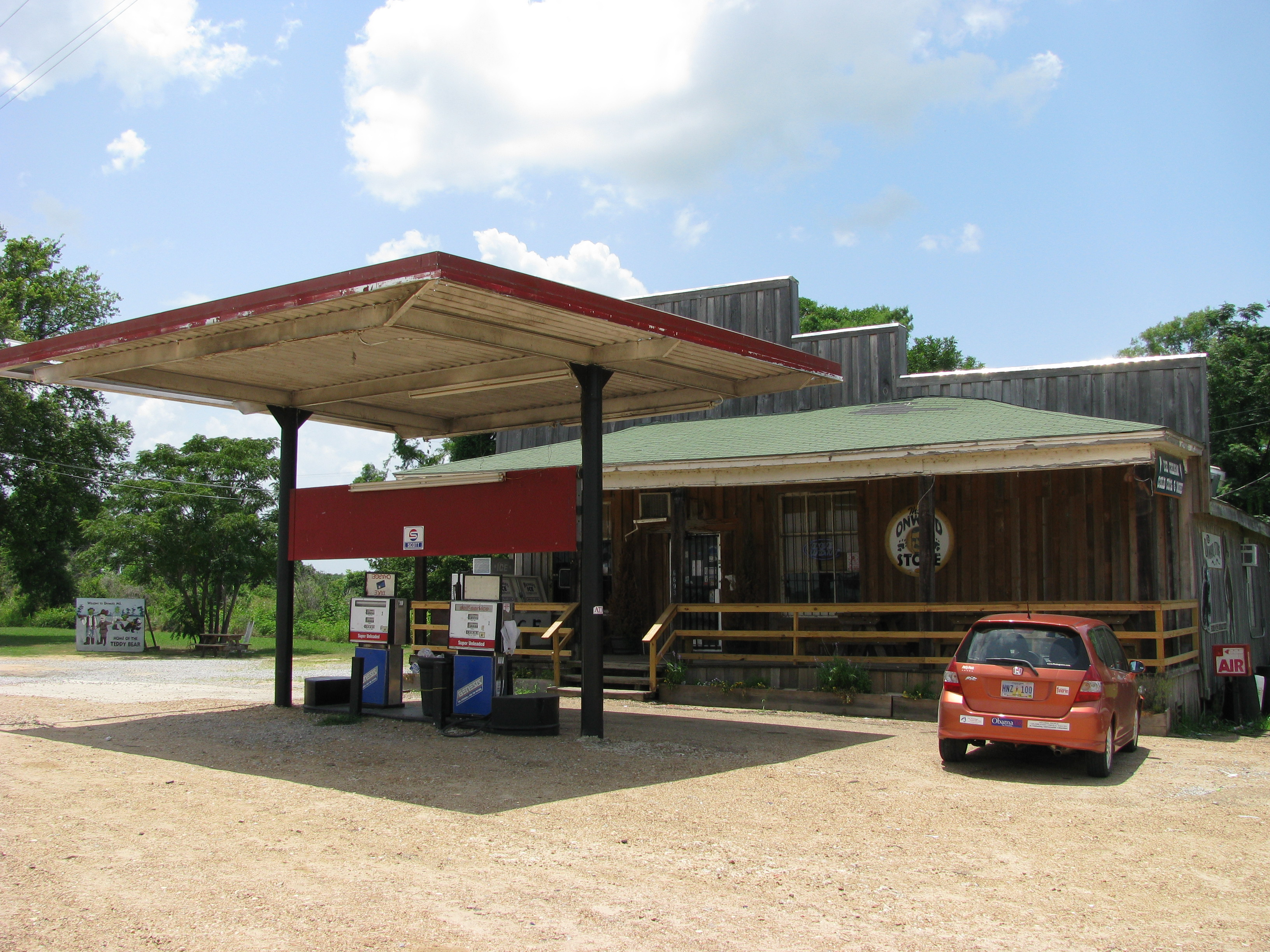 This picture shows the complete town -- this is all there is in Onward, Mississippi. But I recommend it. If you find yourself between Rolling Fork and Vicksburg and in need of sustenance, stop at The Onward Store for a hamburger. It's a pleasant, friendly place, and the hamburger was good.